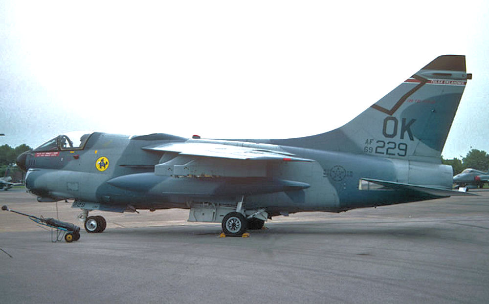 125th Tactical Fighter Squadron A-7D-5-CV Corsair II 69-6229 1972: Aircraft delivered to 354th Tactical Fighter Wing/355th TFS, Myrtle Beach AFB, SC (c/n D-059) Transferred to 125th Tactical Fighter Squadron, OK Air National Guard, 1977 Transferred to AMARC as AE0064 Sep 30, 1991 Disposition:04-APR-97 / To National, Kolb Rd, Tucson, AZ. Now on static display at at Davis-Monthan AFB, AZ